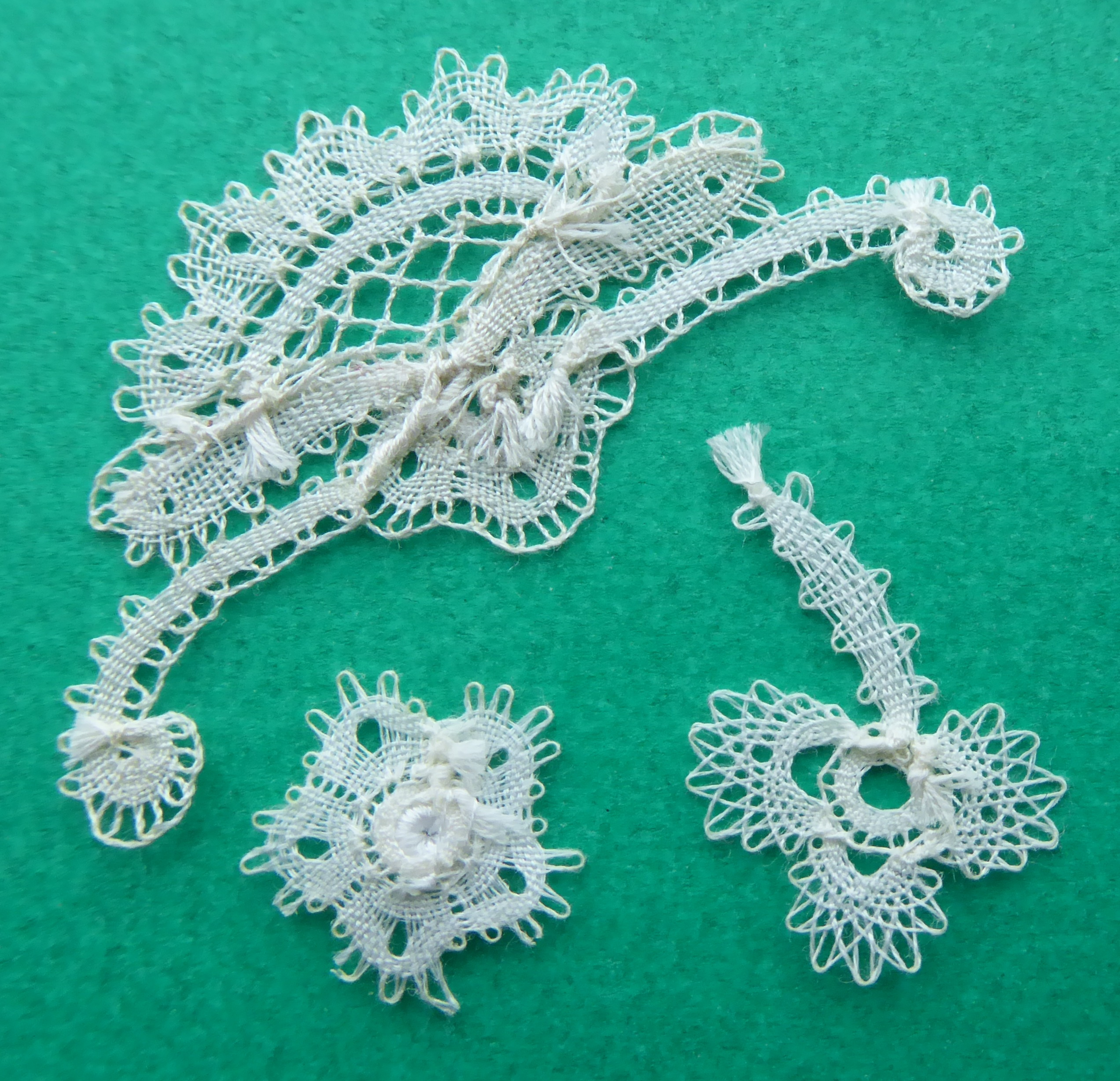 Rosaline Perléee back